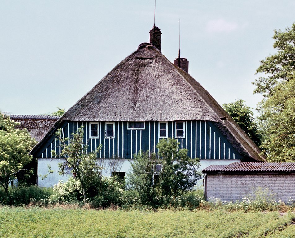 Groß Nordende (Schleswig-Holstein, Germany),Old school , photo 1983